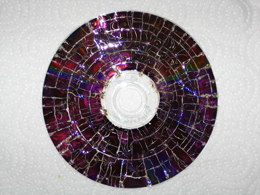 After picture of DVD burned in the microwave for 5 seconds to ensure complete irreversible elimination of sensitive data."Burned" DVD, microwaved to ensure total elimination of private data.